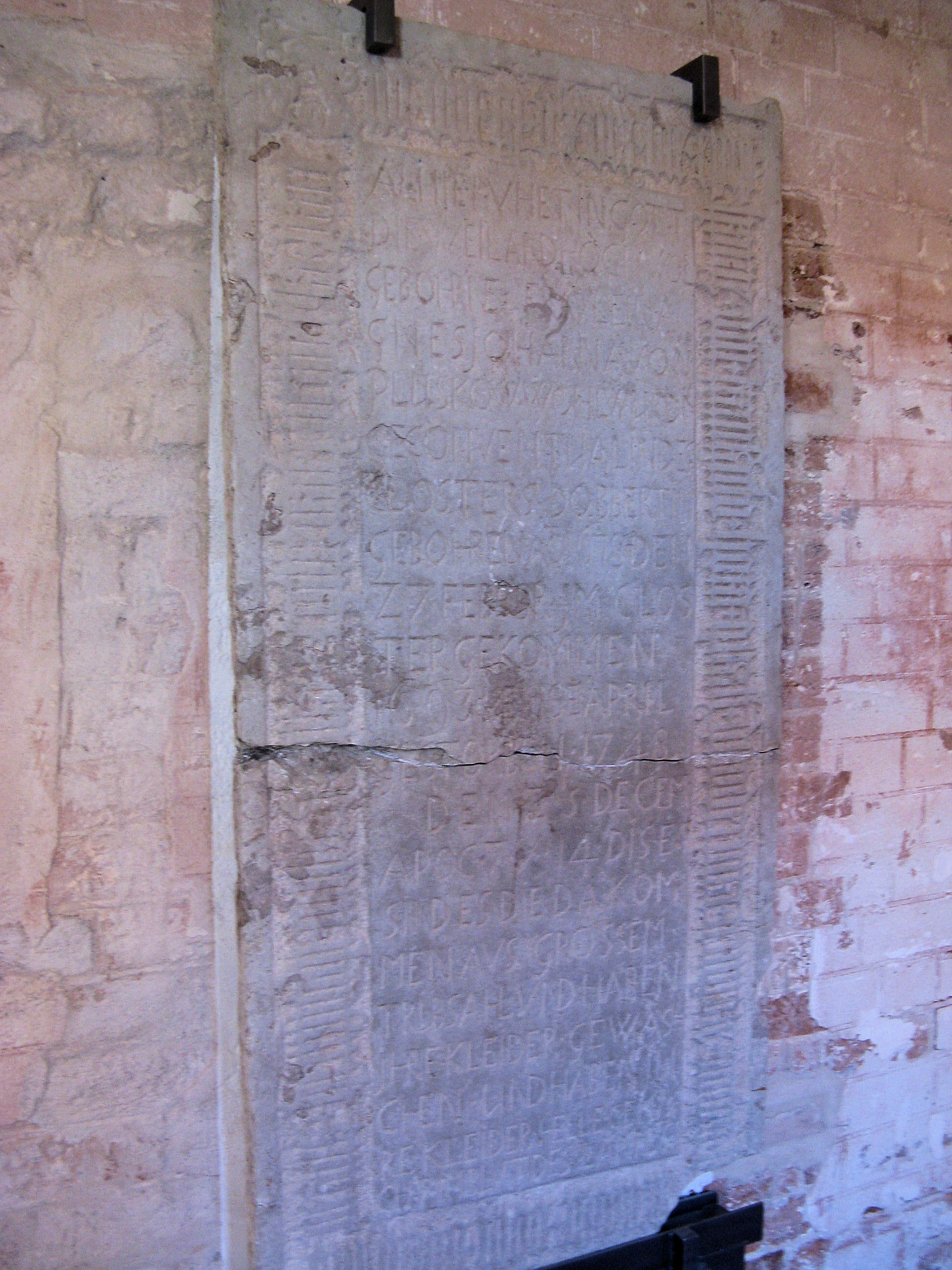 Ledger stone in the cloister of Monastery Dobbertin, district Parchim, Mecklenburg-Vorpommern, Germany